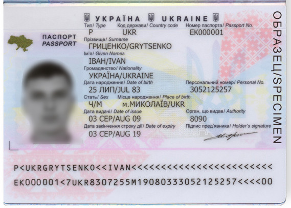 Ukrainian passport for travel abroad